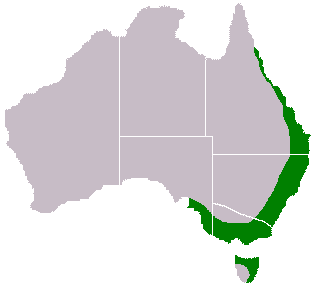 Acacia melanoxylon range map created with a blank map from the Commons, info from ILDIS LegumeWeb and the GIMP. More detail from ANBG [1]